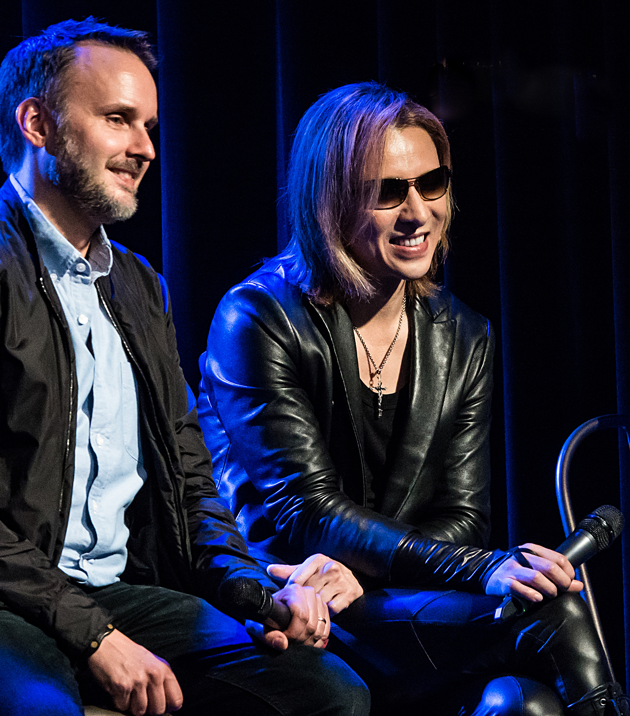 Yoshiki (of the band X Japan) performs live and participates in a Q&A session at Mezzanine nightclub in San Francisco California on Tuesday October 25th, 2016. The performance was part of the premiere screening of the film "We Are X", a documentary about Yoshiki's legendary rock band. The director of the film Stephen Kijak also participated in the Q&A session.